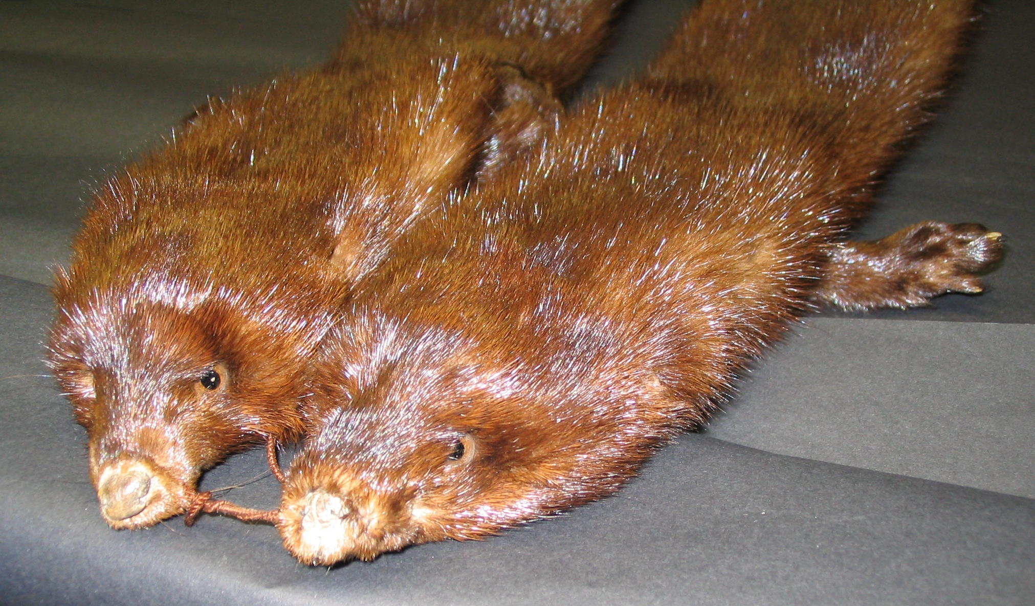 Mink choker c. 1970